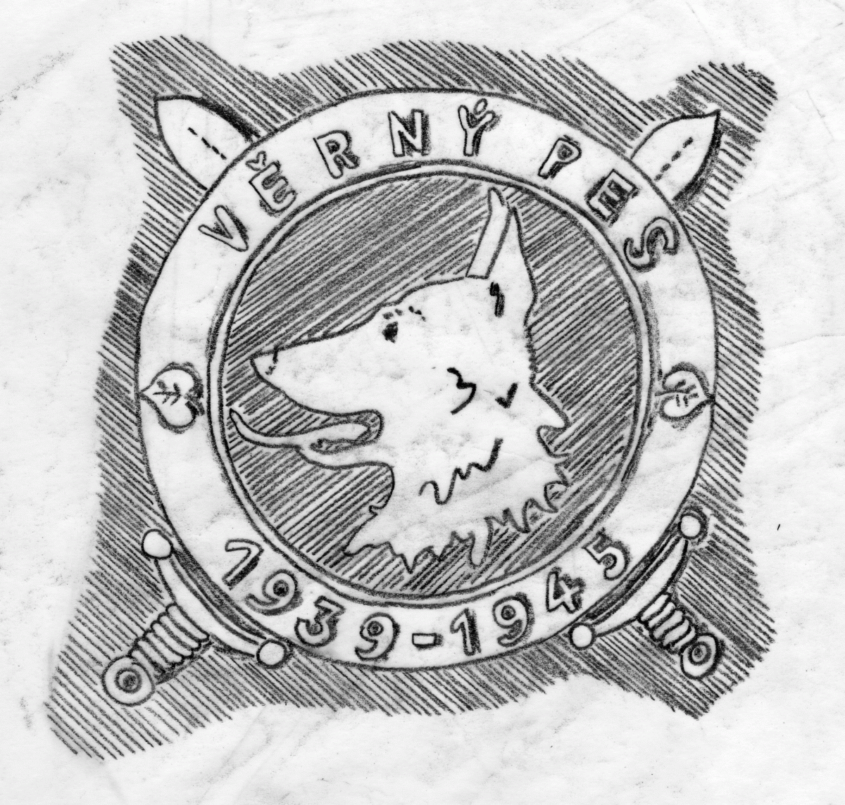 Clothes applique (badge) used by resistance (rebels) group "Faithful Dog" (1939-1945). The group was composed of non-communistic oriented (mainly) young people (from neighborhoods in Prague Jinonice and Radlice). During the Prague Uprising in May 1945, members of this organisation ("Faithful dog") fought on the barricades. This group intervened significantly to fights on crossing road "U Bulhara" as well as to fights in the immediate vicinity of the building of the Law Faculty of Charles University and near the Bridge of Svatopluk Čech in Prague.